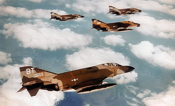 U.S. Air Force McDonnell Douglas F-4D Phantom II fighters of the s of the 22nd & 53rd Tactical Fighter Squadrons, 36th Tactical Fighter Wing, based at Bitburg air base, Germany, in 1972. The first and last F-4D do not have the typical IR-seeker under the radome. Note the sand colour added to the camouflage of three planes.